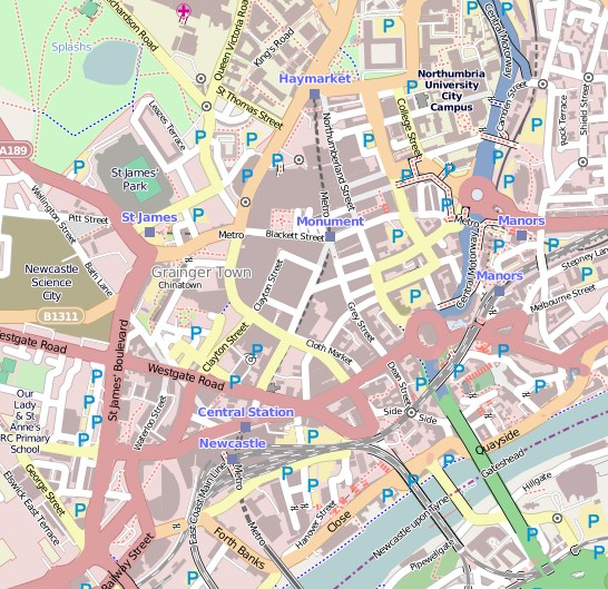 Map of Newcastle-upon-Tyne Central Geographical Limits: N: 54.980046° S: 54.964829° W: -1.626277° E: -1.600850°